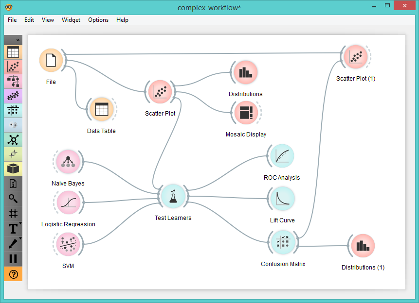 An example of a workflow in Orange 3.0.